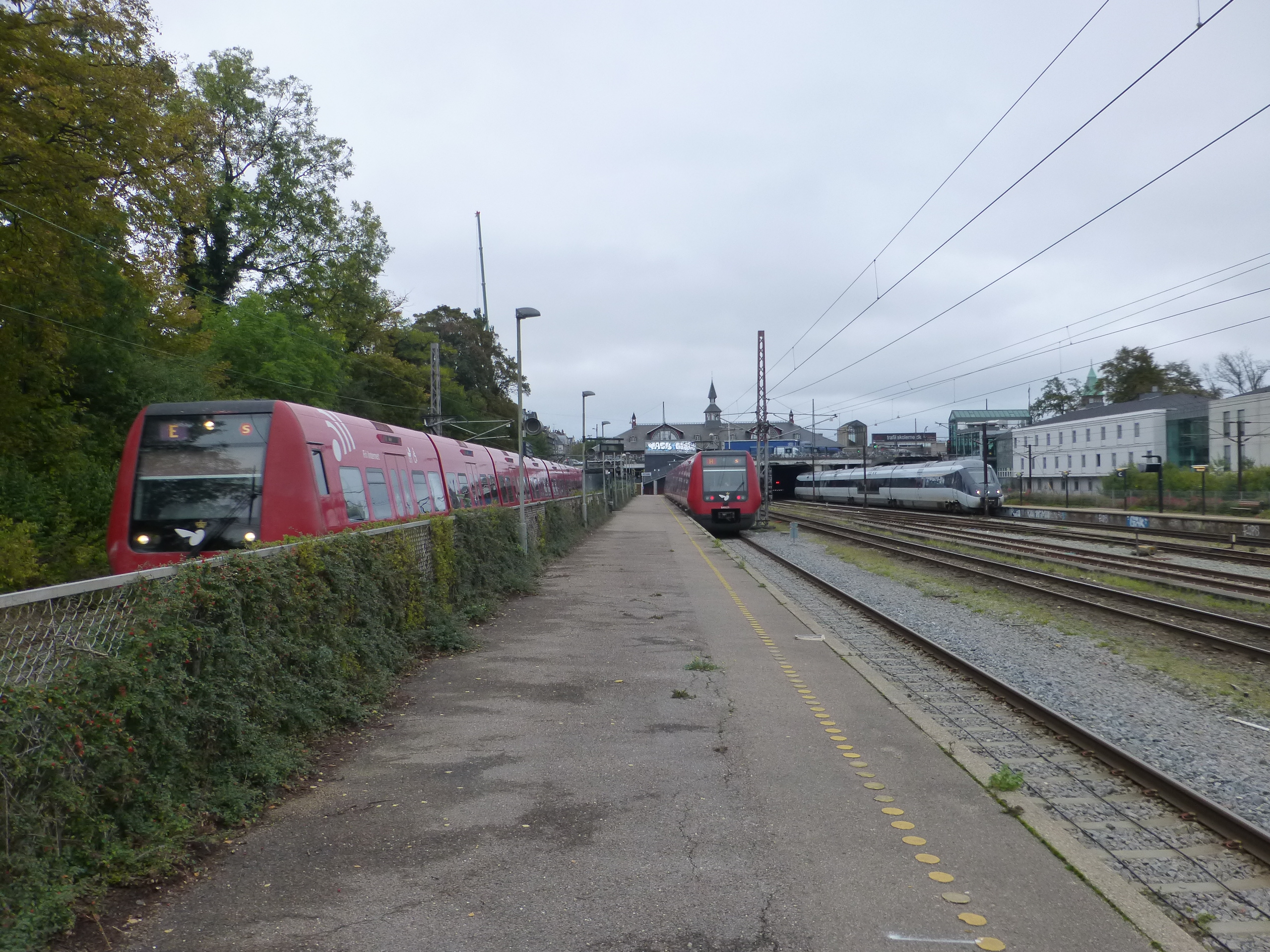 S-trains on line E and H and diesel multiple unit IC4 53 at Østerport Station in Copenhagen.